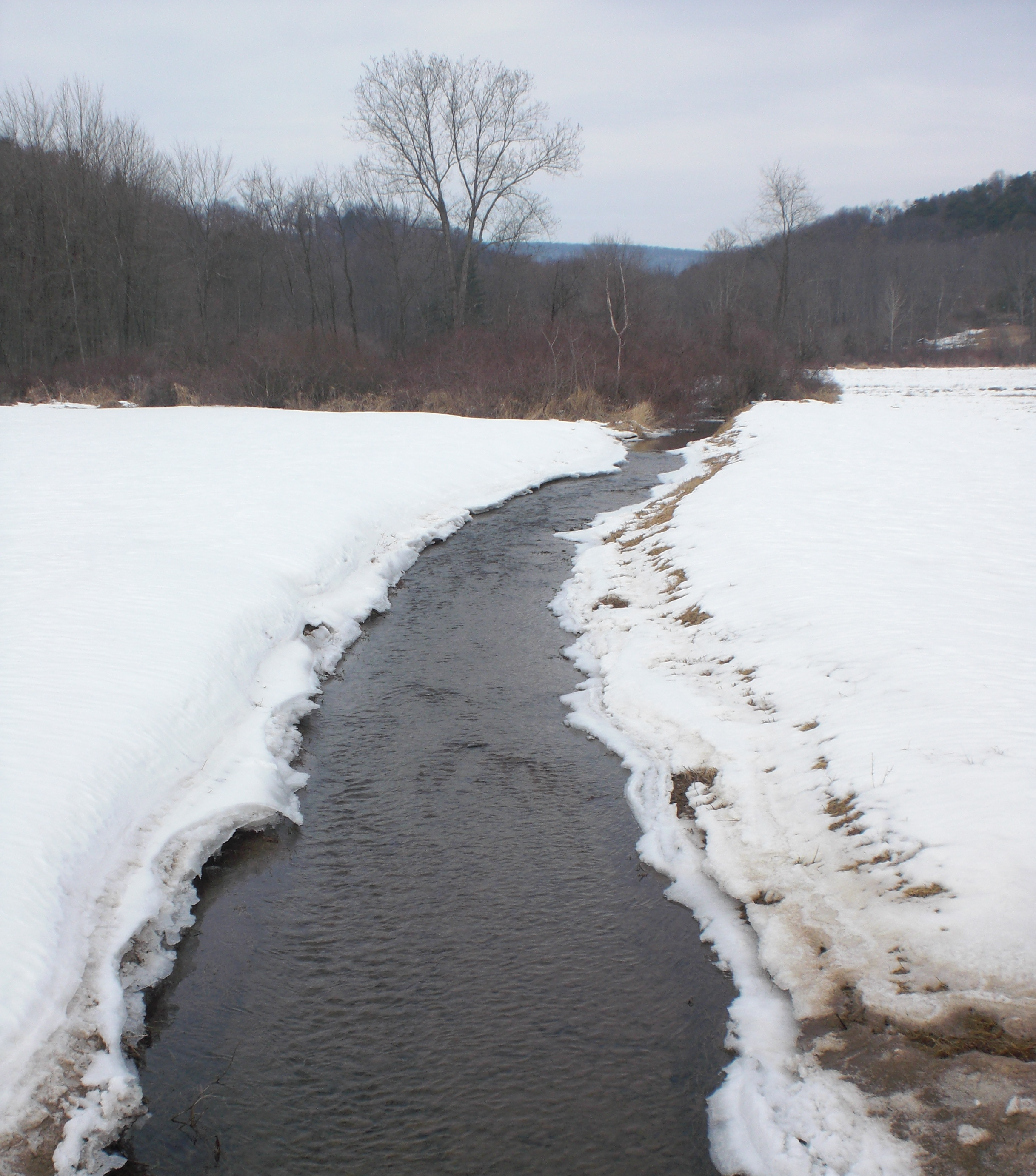 East Branch Briar Creek looking upstream in near Briar Creek Lake